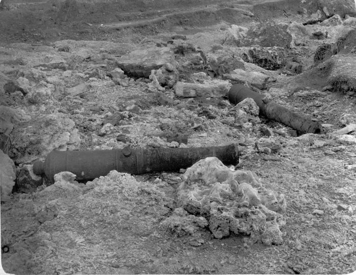 The rests of Fort Anjer after the eruption of the Krakatau in 1883.